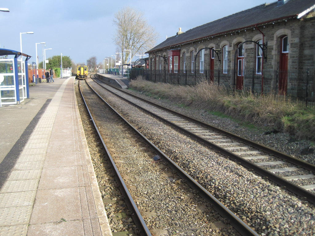 Clitheroe railway station, LancashireOpened in 1850 on the Lancashire & Yorkshire Railway's line from Blackburn to Hellifield, this station closed to passengers in 1962. It was rebuilt and reopened in 1994. View north east towards Chatburn and Hellifield. The original station building on the right had become a gallery when this image was taken.